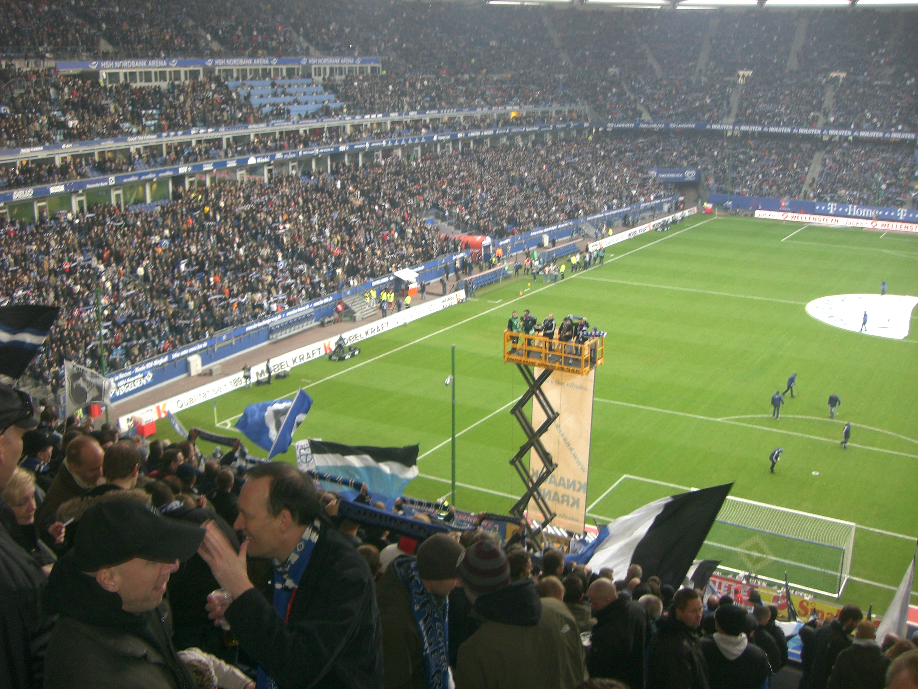 Lotto King Karl and Carsten Pape performing "Hamburg, meine Perle" in front of the North Stand at the Volksparkstadion in Hamburg (home of HSV)